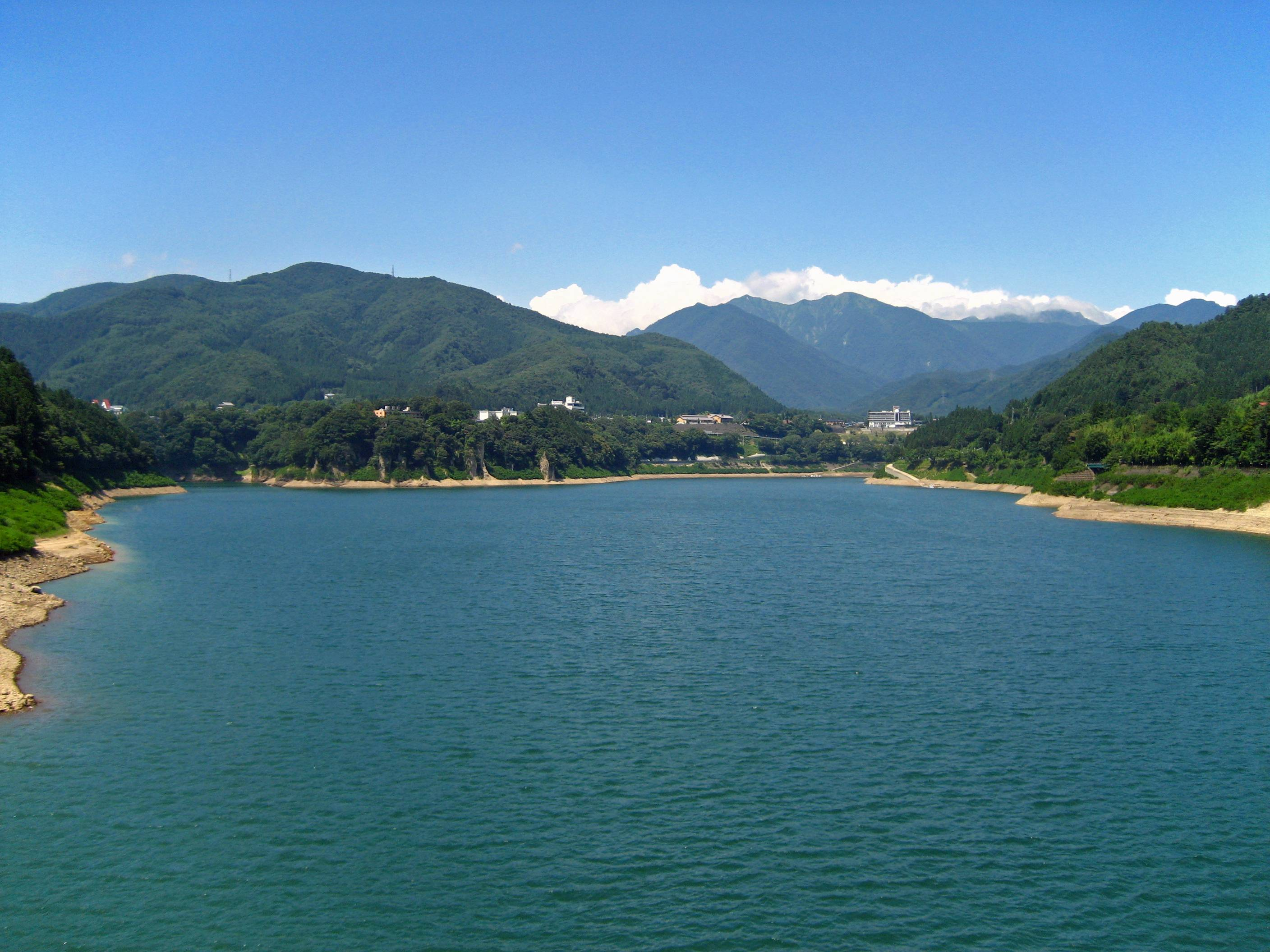 Aimata Dam lake.